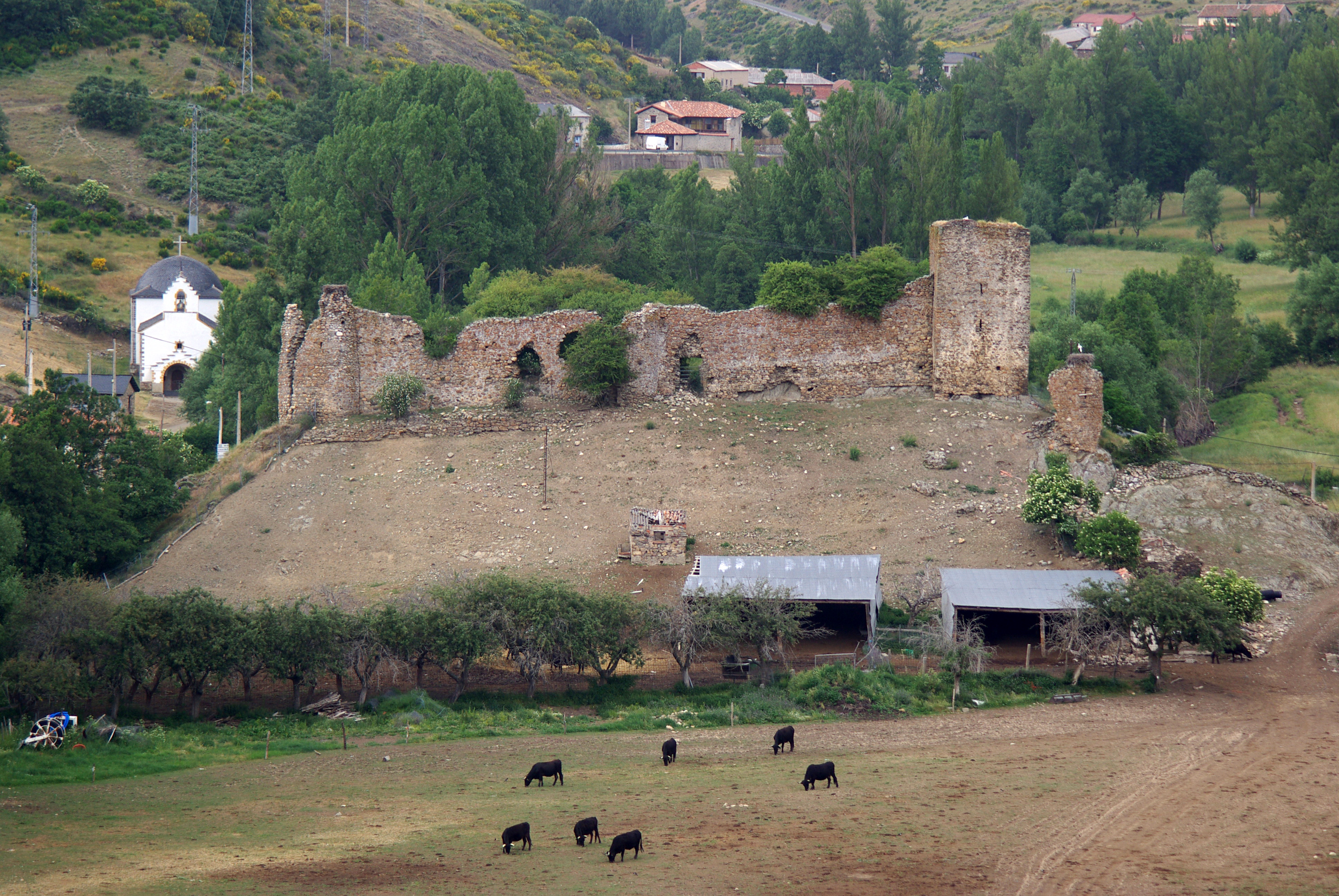 Castle of Benal or Beñal, XIV th Century. El Castillo (Riello, León, Spain)